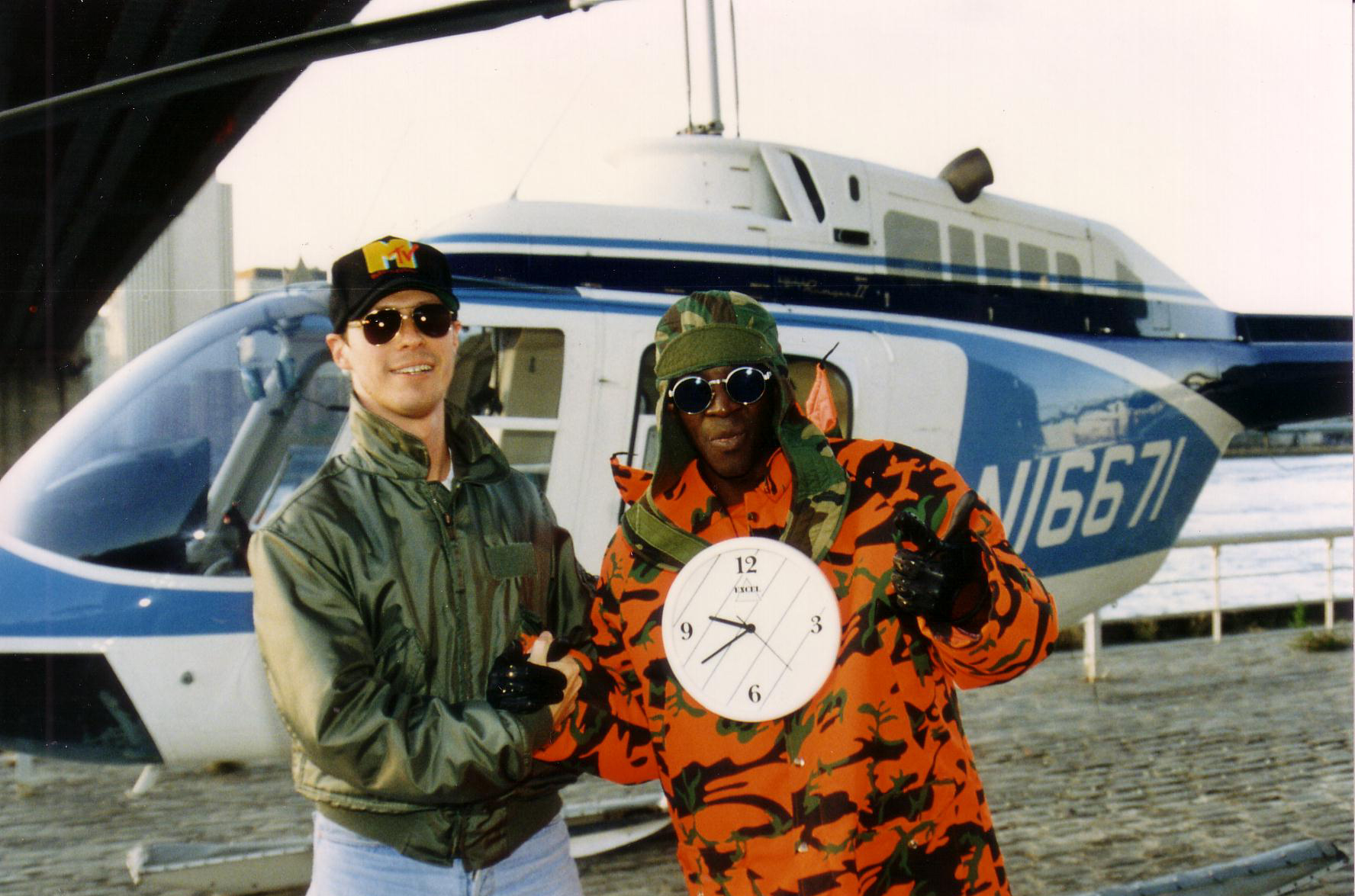 Flava Flav, and helicopter pilot Ray McCort on MTV shoot in NYC